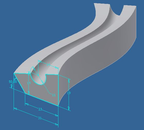 Sweep